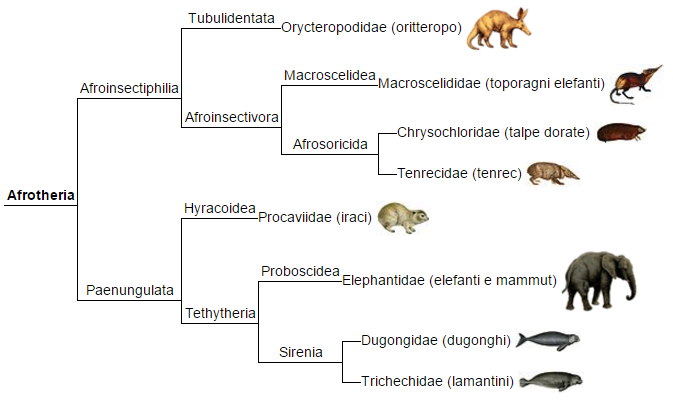 Phylogeny of afrotheria